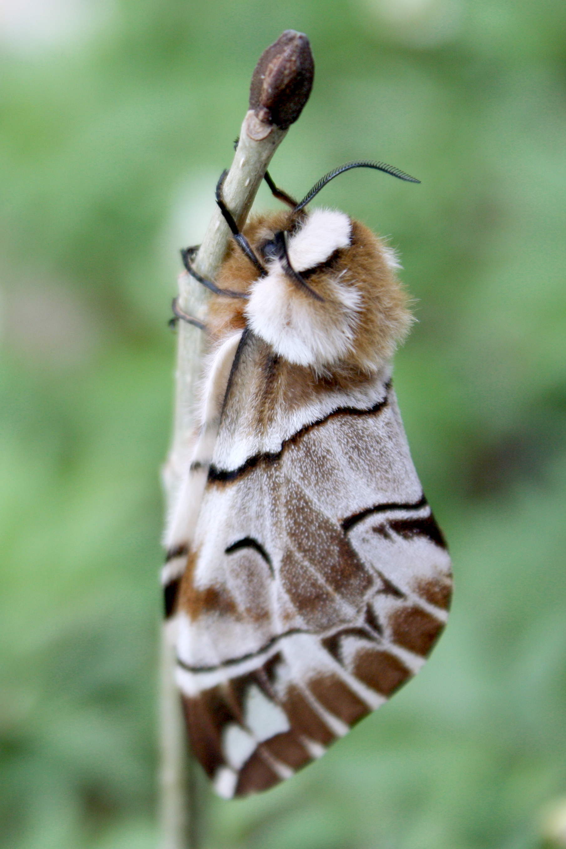 Female of Endromis versicolora - Kentish glory. Photo from Rådmansö, county of Uppland, Sweden in early May 2012.